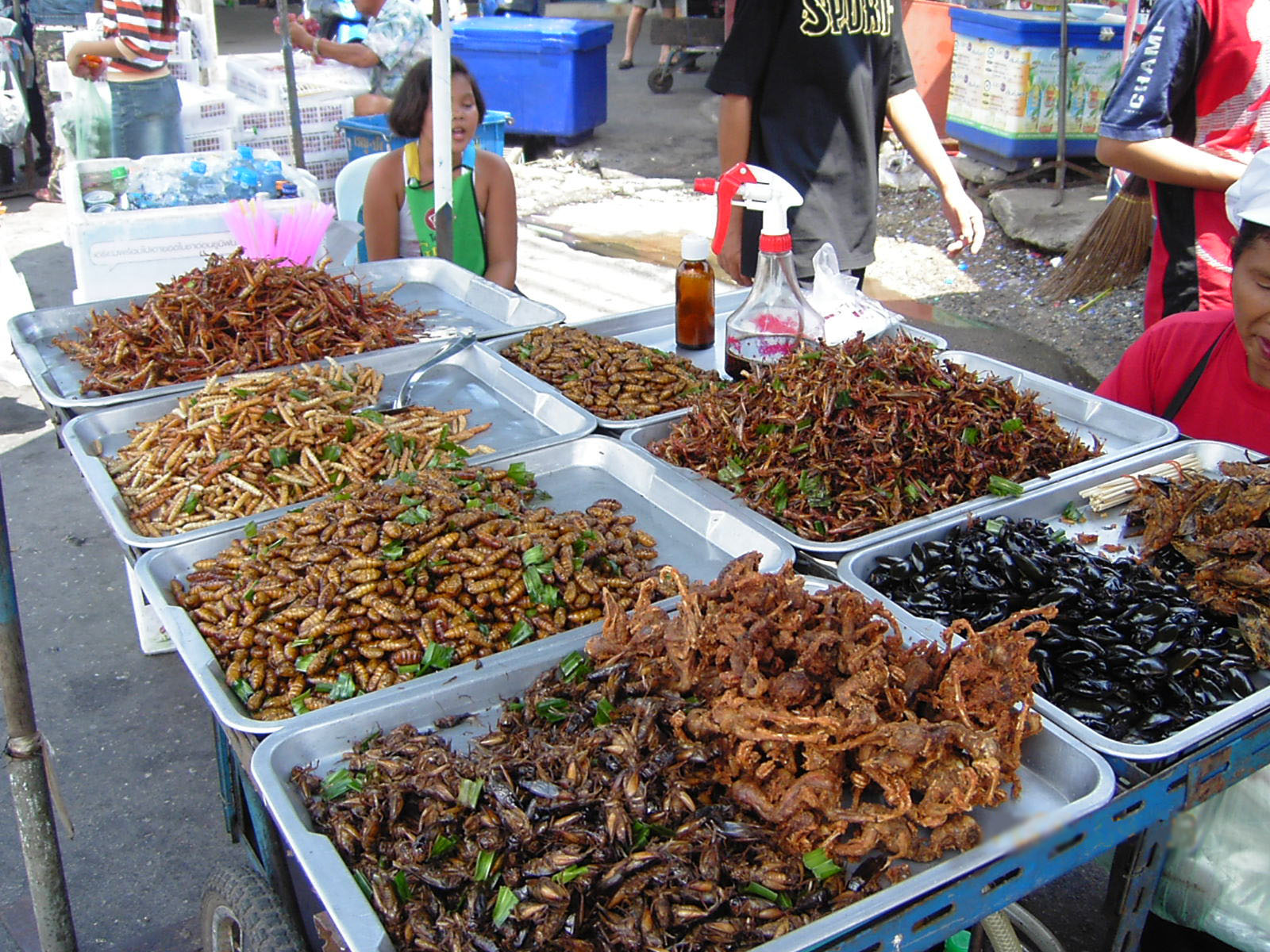 Common insect food stall in Bangkok, Thailand. Counter-clockwise, from the back-left to the front - locusts, bamboo-worms, moth chrysalis, crickets, scorpions, diving beetles and giant water beetles. They are deep fried.